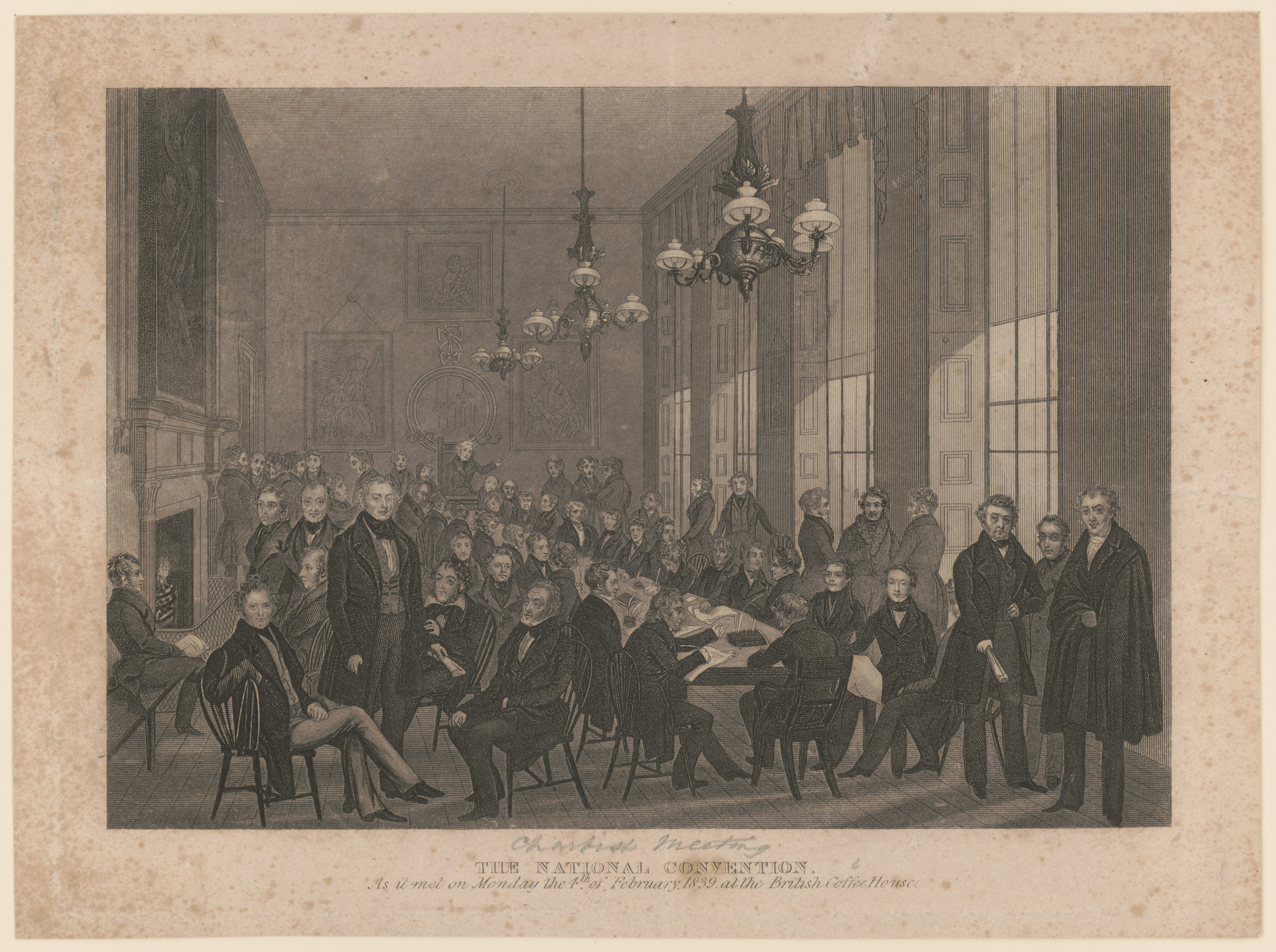 Title: The national convention. As it met on Monday the 4th of February, 1839, at the British Coffee House ca. 1839 Physical description: 1 print. Notes: Etching.; This record contains unverified data from PGA shelflist card.; Associated name on shelflist card: National.; Inscribed: Chartist meeting.